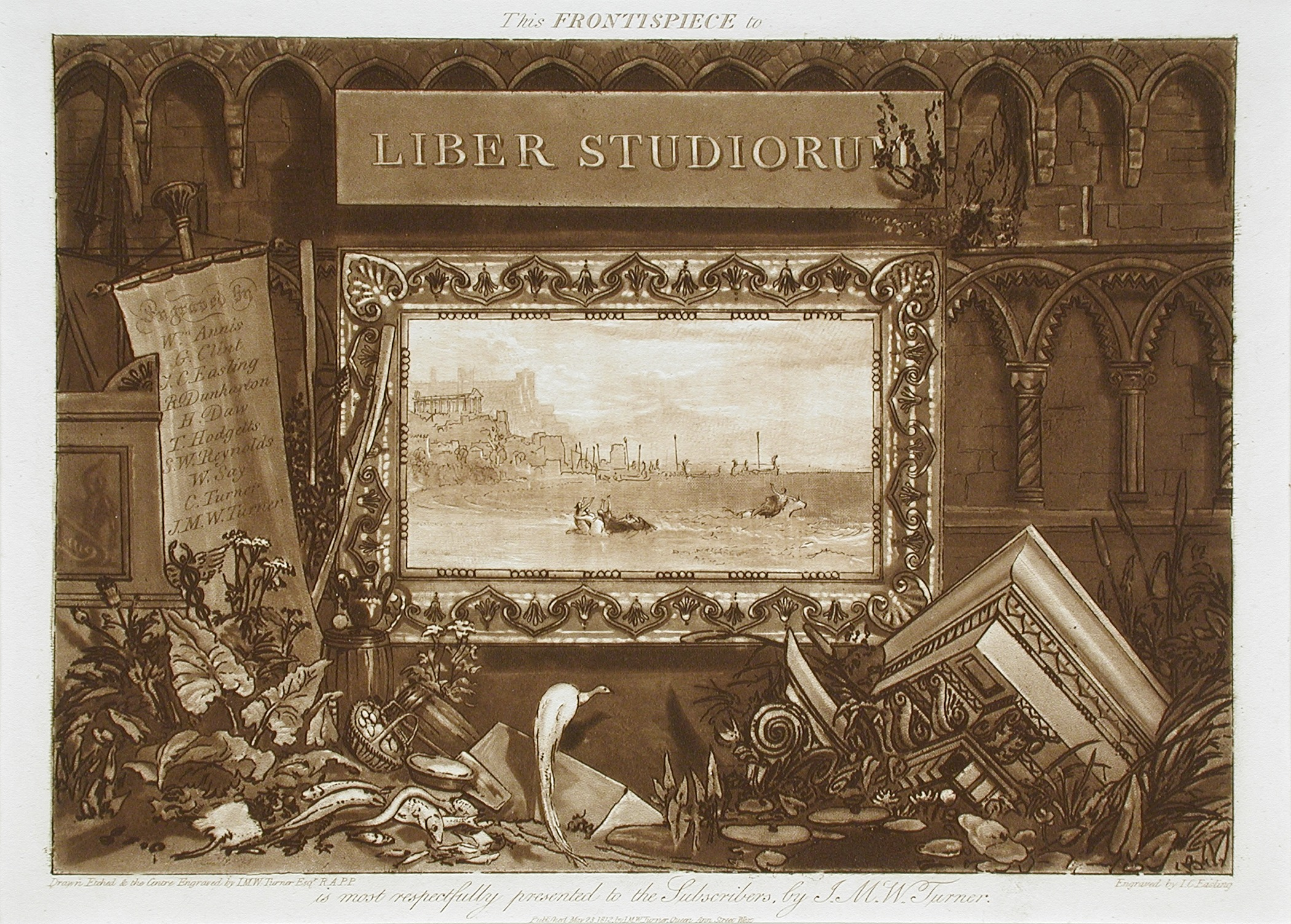 England, 1812 Series: Liber Studiorum, Part X Prints; etchings Etching and drypoint 8 5/16 x 11 1/2 in. (21.11 x 29.21 cm) Gift of Mr. and Mrs. Martin Medak (AC1992.113.1) Prints and Drawings